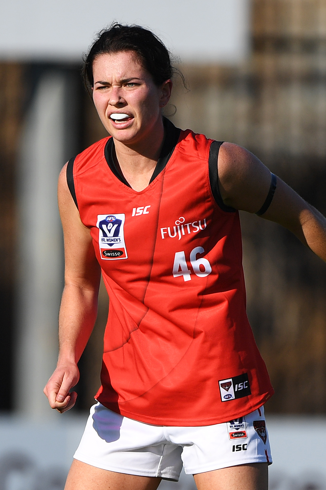 Lauren Ahrens of Essendon during the 2019 VFLW Round 7 match between NT Thunder and Essendon at TIO Stadium on 22 June 2019 in Darwin, Australia.